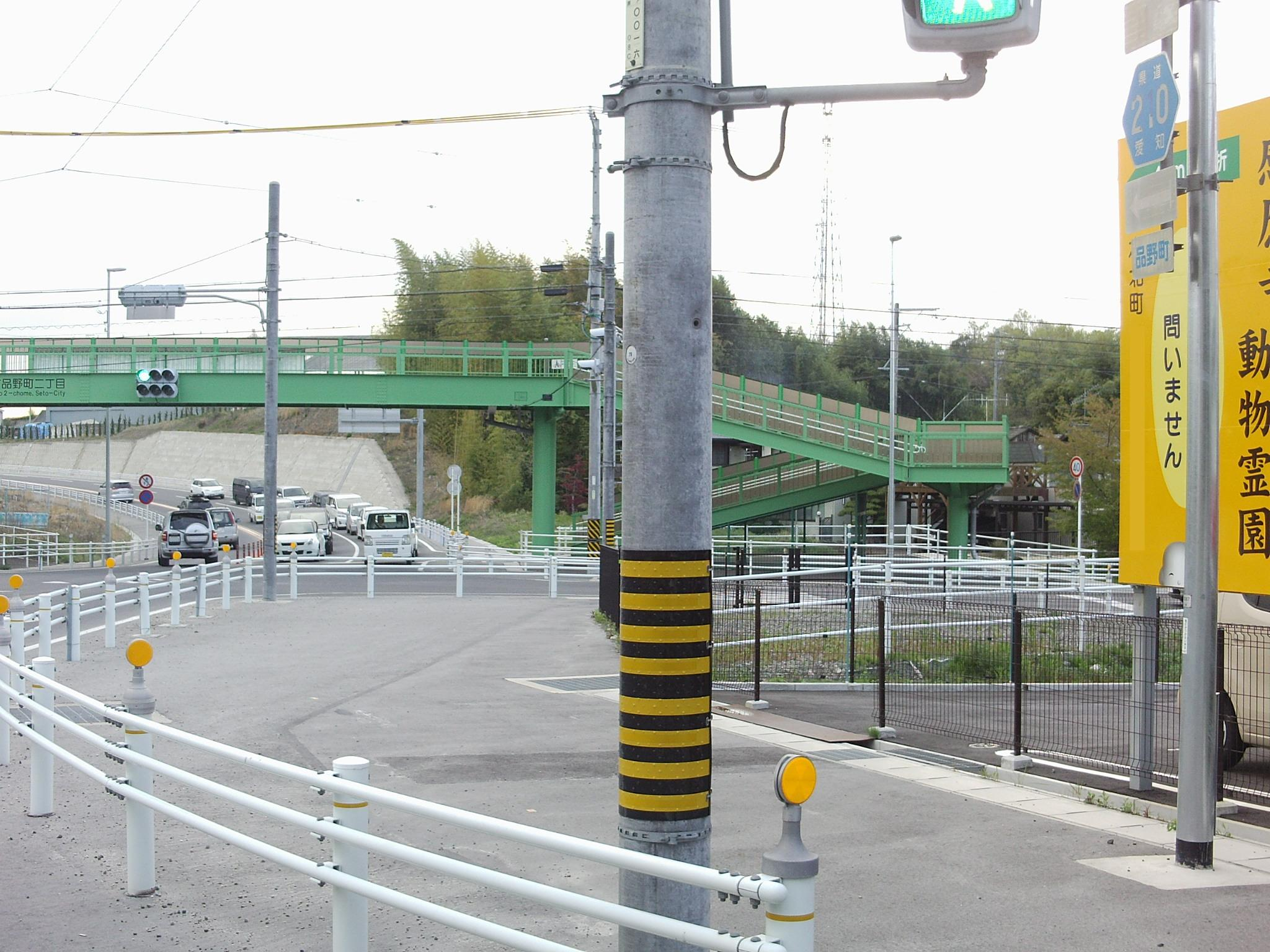 Aichi prefectural road No.210 in Shinanocho, Seto, Aichi.